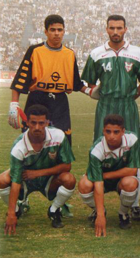 Noor Sabri with the squad of Al-Khadimiya in the start of the 2000-01 season of the Iraqi League.